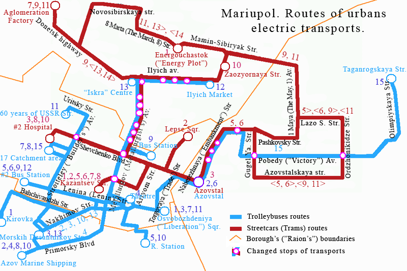 Transport eng mariupol